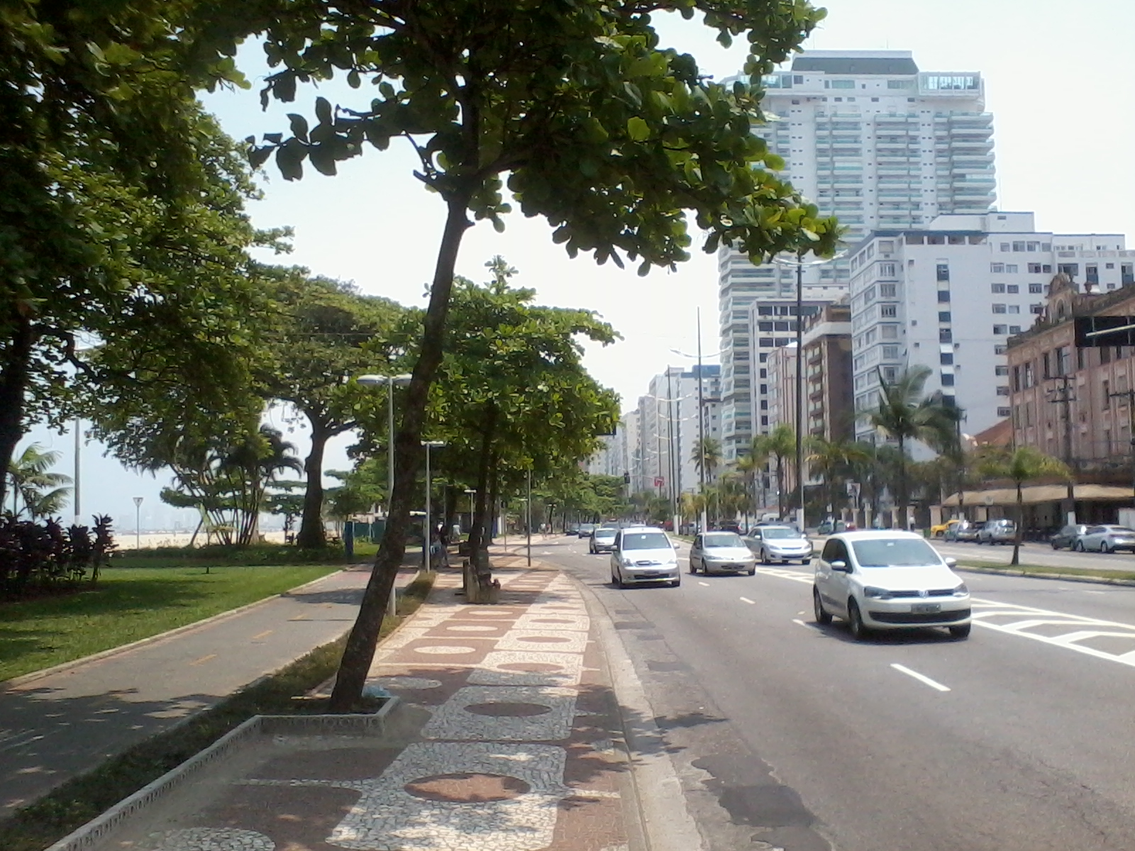 Avenida Vicente de Carvalho, Big hole - Santos SP